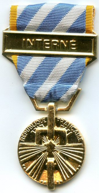 Political internee's medal, 1940-45, France